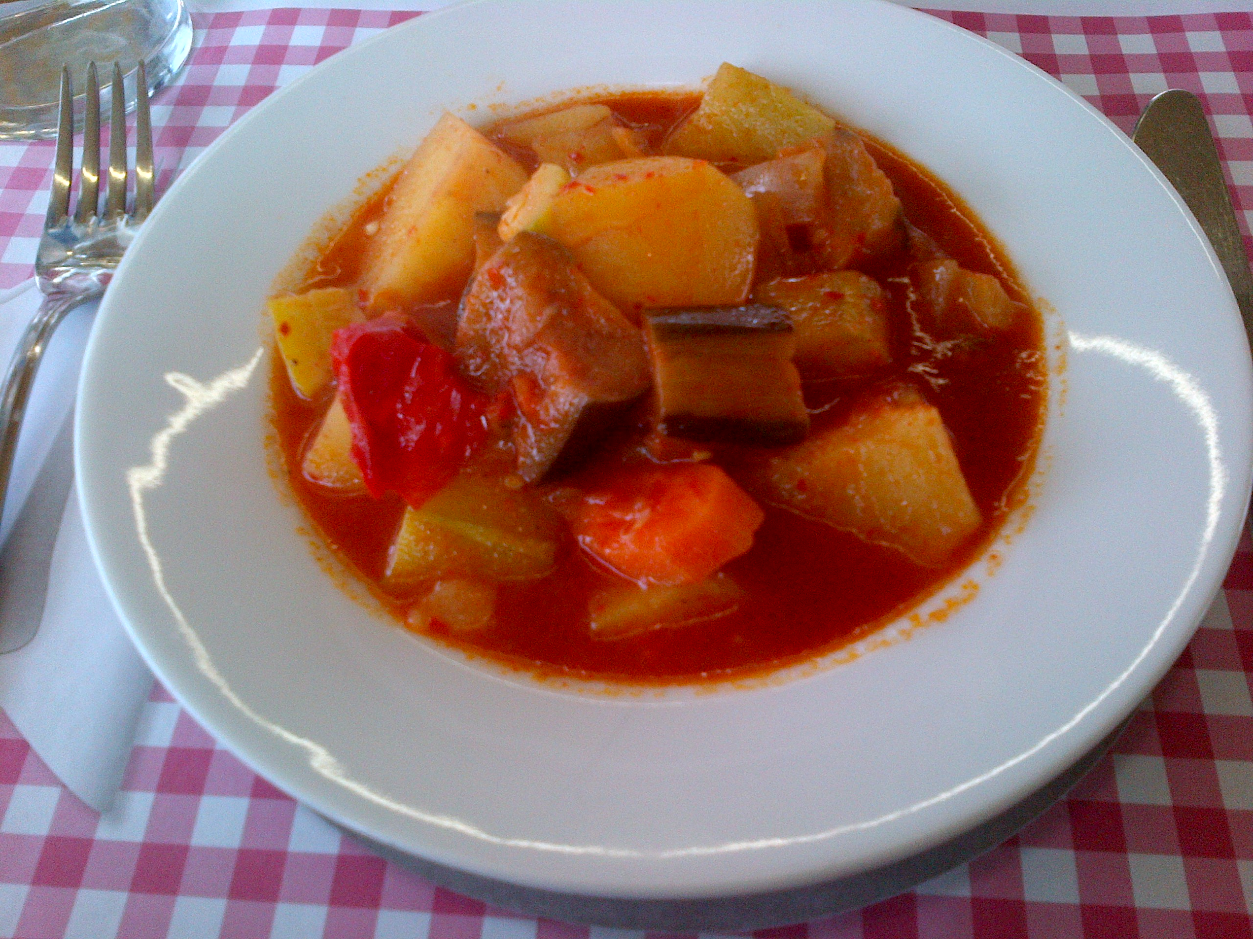 All-vegetable "türlü" from the Turkish cuisine, with potatoes, eggplants, zucchini, carrots, red peppers and onions. This dish generally may also contain green (fresh) beans and/or okras.